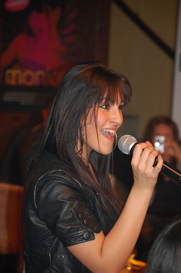 Monice at a live performance, Vienna, October 2008.